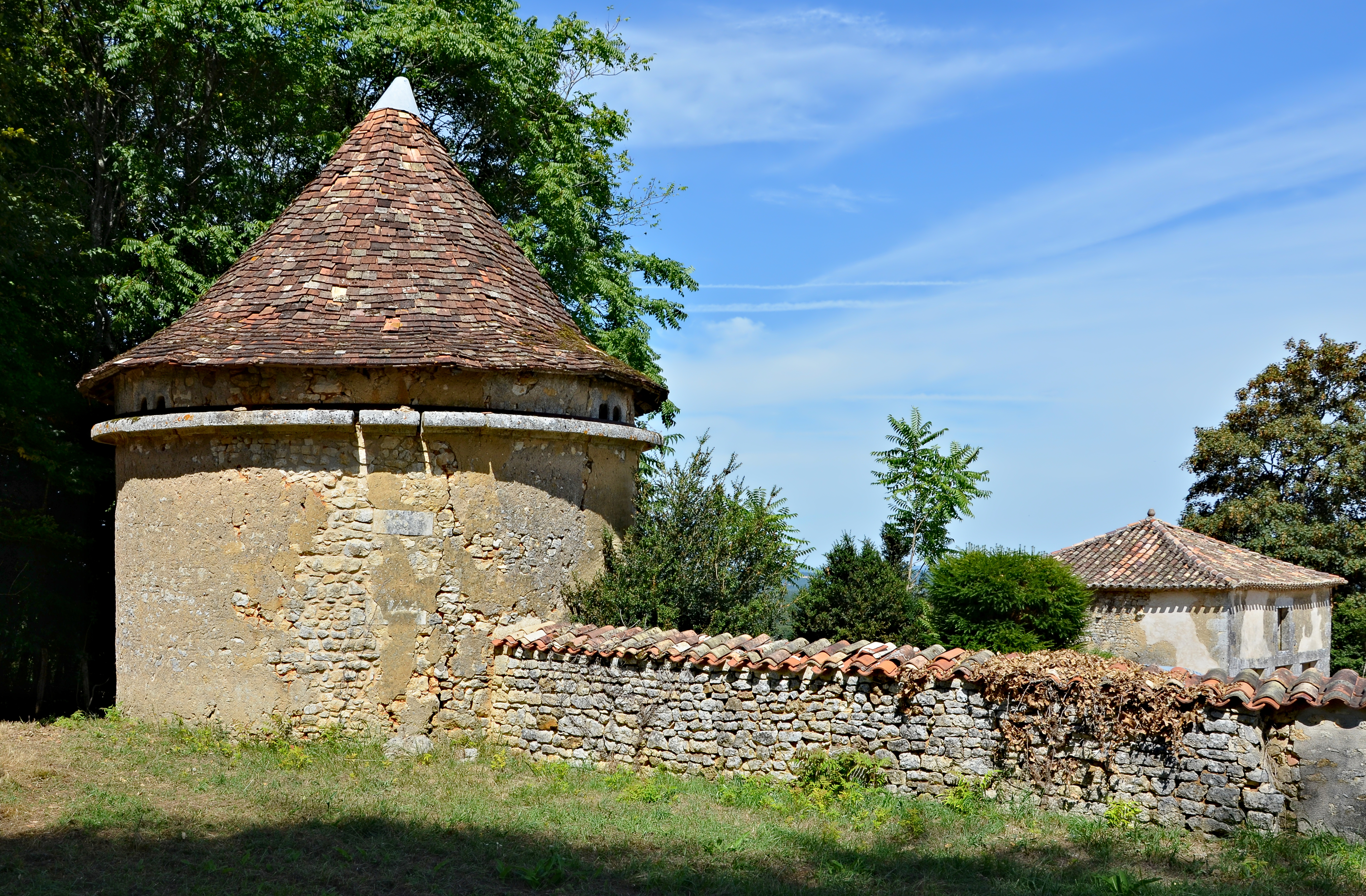 Dovecote and a part of boundary wall (18th century), logis de La Bréchinie, Grassac, Charente, France. .